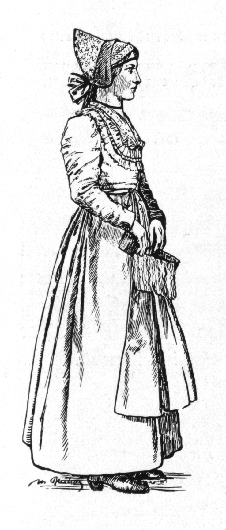 Steirisches Trachtenbuch - Mautner-Geramb 1935 Traditional Costumes from Ennstal, Styria Scanprojekt Bundesdenkmalamt Österreich This scan or this PDF-file was created within the Austrian Wikipedia-project Denkmalpflege Österreich (German only) supported by Wikimedia Germany and Wikimedia Austria as part of the Wikipedia community-project to collect public domain documents from the library of the Heritage Monuments Board of Austria. This document describes or depicts an object which is located in Austria today. Texts are written in German language. Send requests for uncompressed scans to Hubertl. This work is in the public domain in the United States, and those countries with a copyright term of life of the author plus 100 years or less. This file has been identified as being free of known restrictions under copyright law, including all related and neighboring rights.